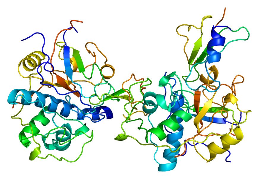 Structure of the CD74 protein. Based on PyMOL rendering of PDB 1icf.